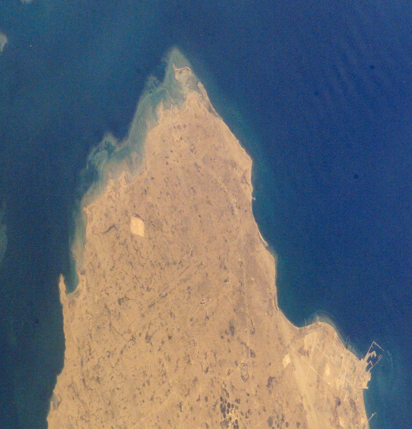 Satellite imagery of northern Qatari Peninsula taken by NASA in 2007.